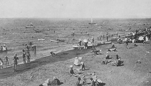 Kakakashi Bathing-Place